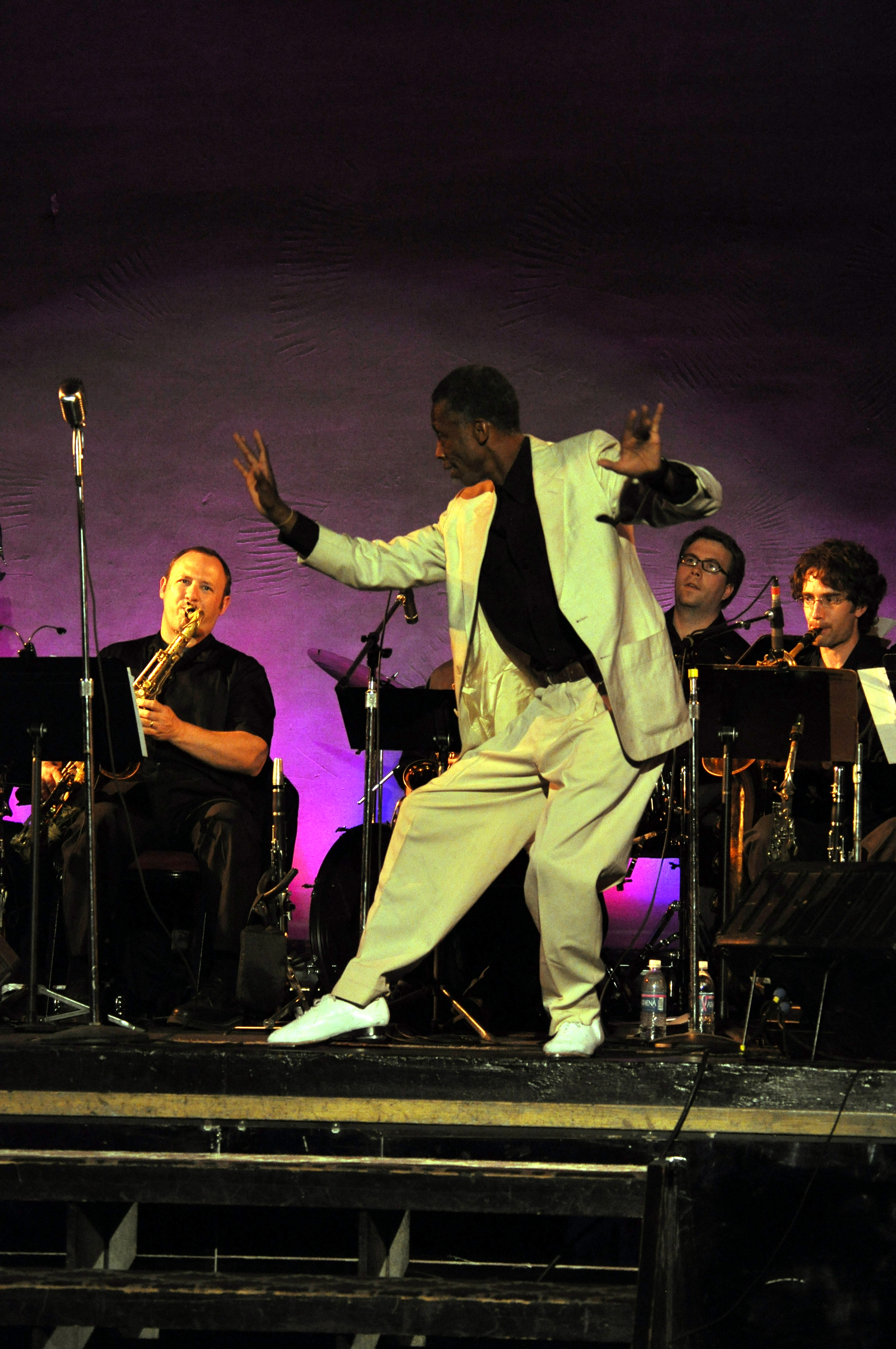 Dancer (and musician) Chester Whitmore appearing at Masters of Lindy Hop and Tap, Century Ballroom, Oddfellows Temple, Pine Street, Capitol Hill, Seattle, Washington, USA. See Chester Whitmore on the site of that event for more about Whitmore.